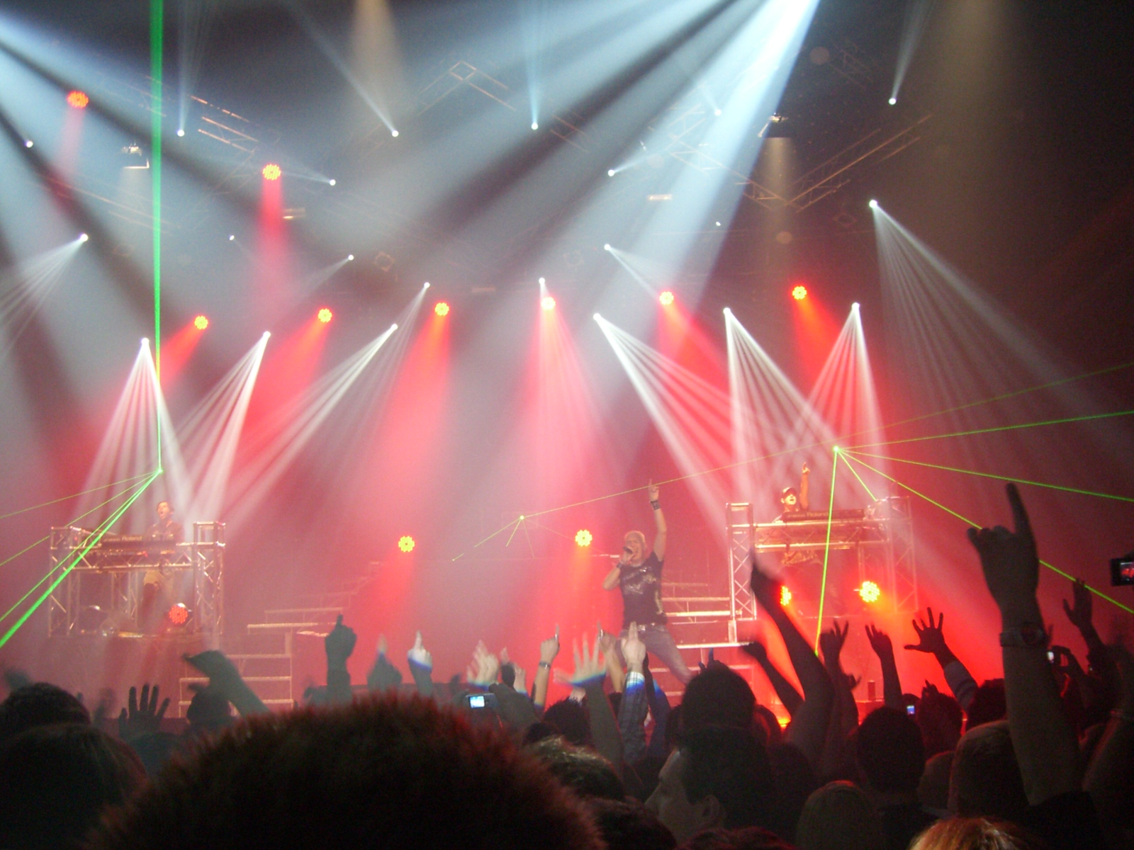 Scooter on its "Jumping all over the World"-tour at the Zenith in Munich 2008